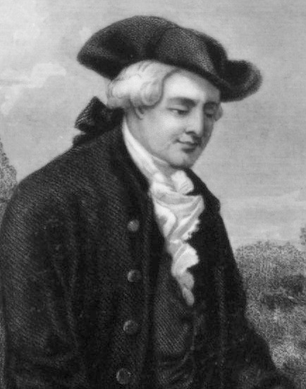 George Washington, as a boy, telling his father Augustine Washington that it was he who cut down the cherry tree. This lithograph was engraved in 1867 by John C. McRae after a painting by G. G. White.